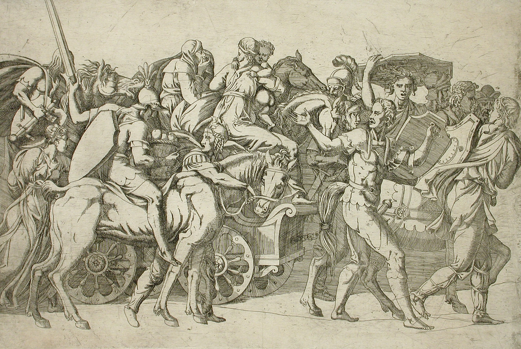 Italy, circa 1542 Series: The Frieze of Sigismond Prints; etchings Etching Mary Stansbury Ruiz Bequest (M.88.91.530) Prints and Drawings